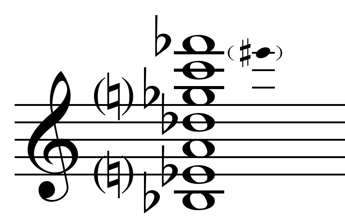 Quartal chord from Schoenberg's String Quartet No. 1.